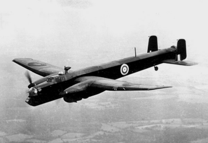 A Royal Air Force Armstrong Whitworth Whitley bomber in flight, circa 1940.